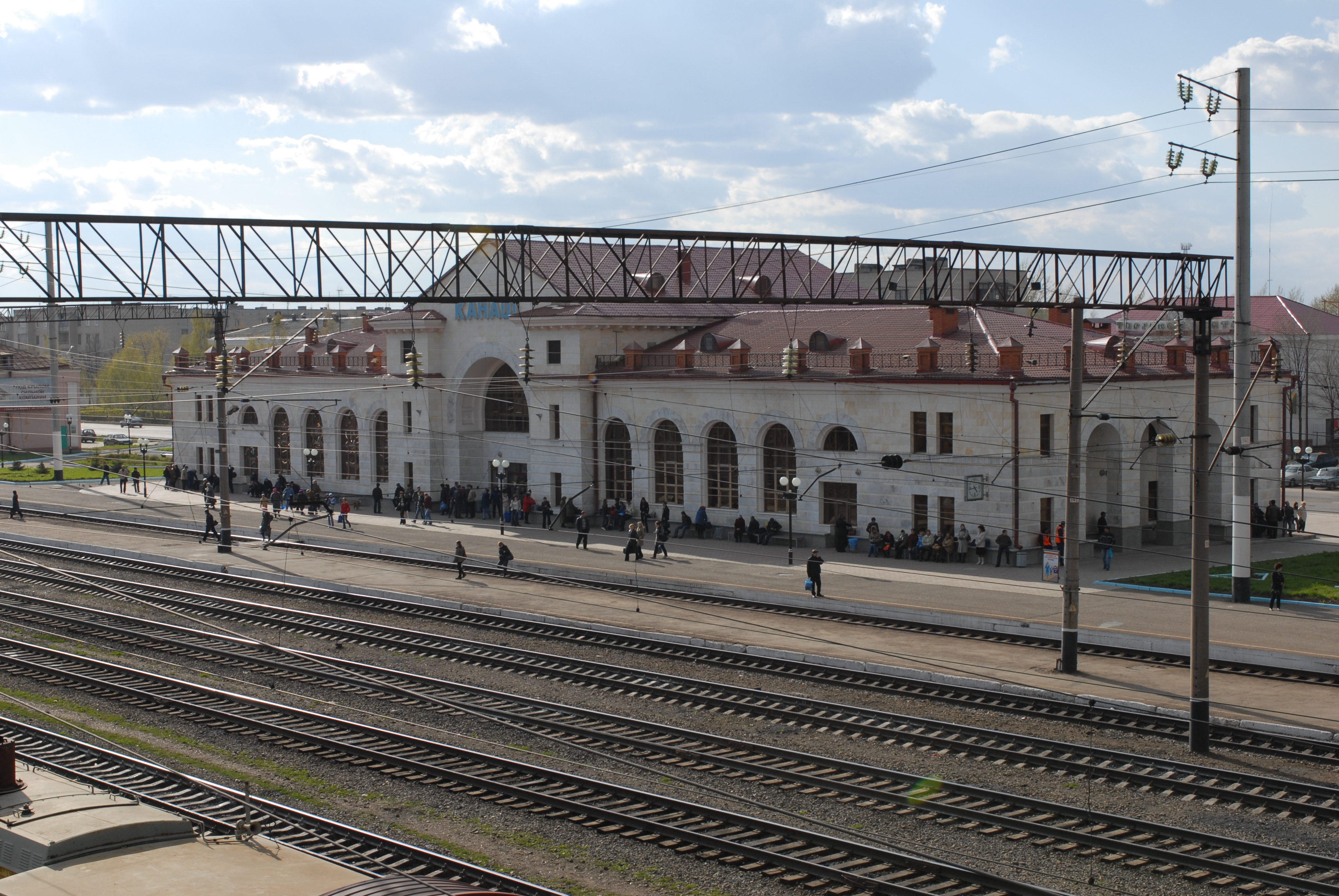 Kanash's railway station